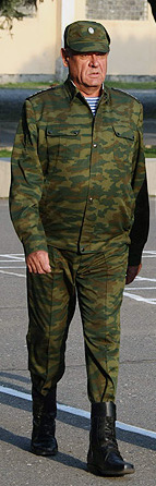 Vladimir Boldyrev, Commander-in-Chief of the Russian Ground Forces